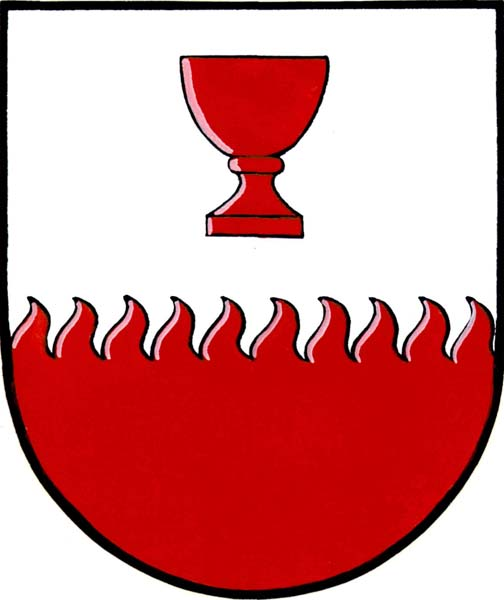 Coat of amrs of Hořátev , District Nymburk, Czech Republic